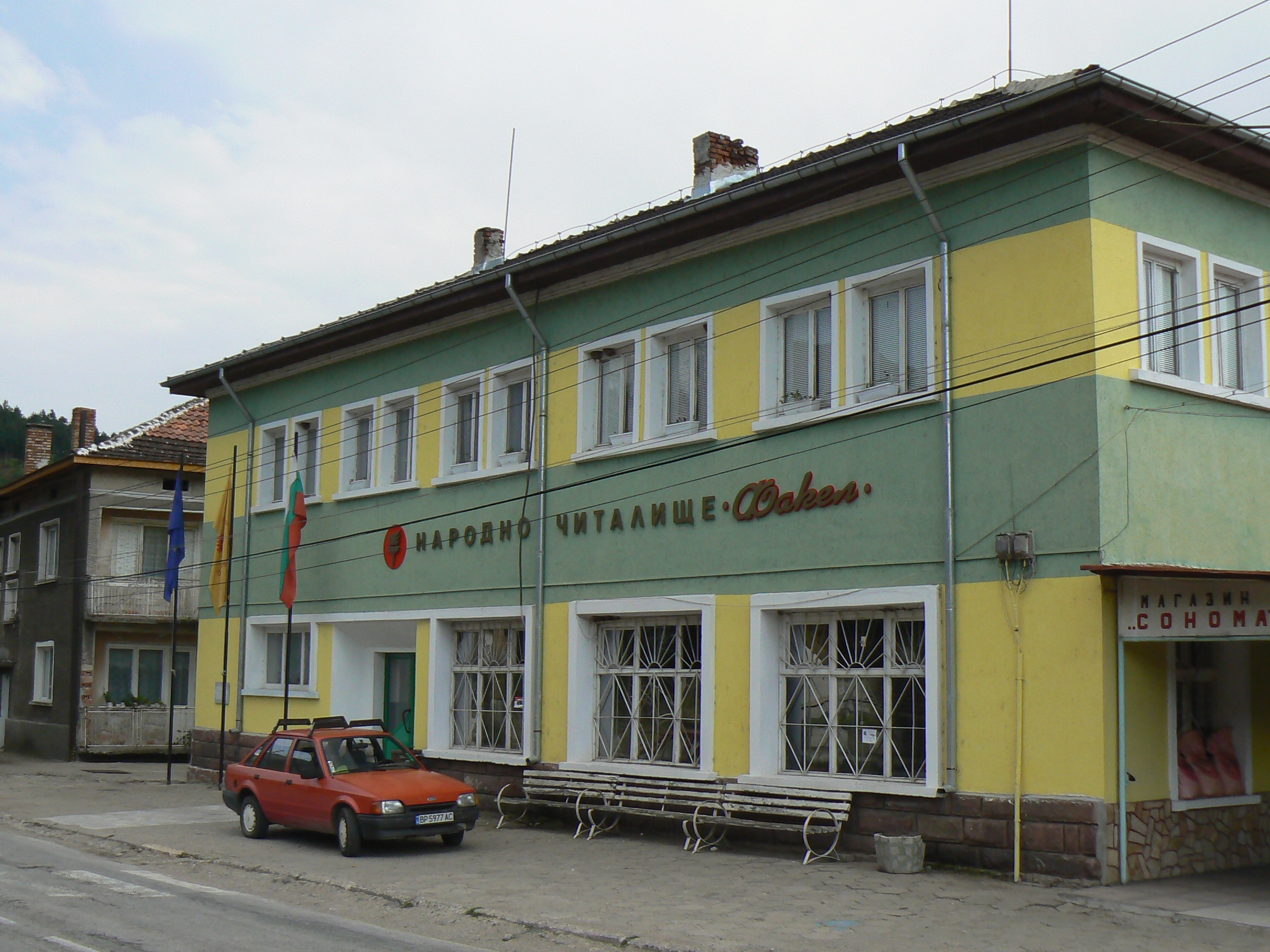 Library "Fakel" in village Zverino, Bulgaria